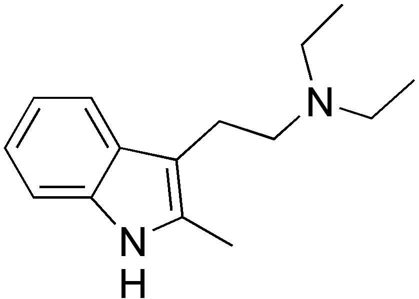 chemical structure of 2-methyl-diethyltryptamine (2-Me-DET)